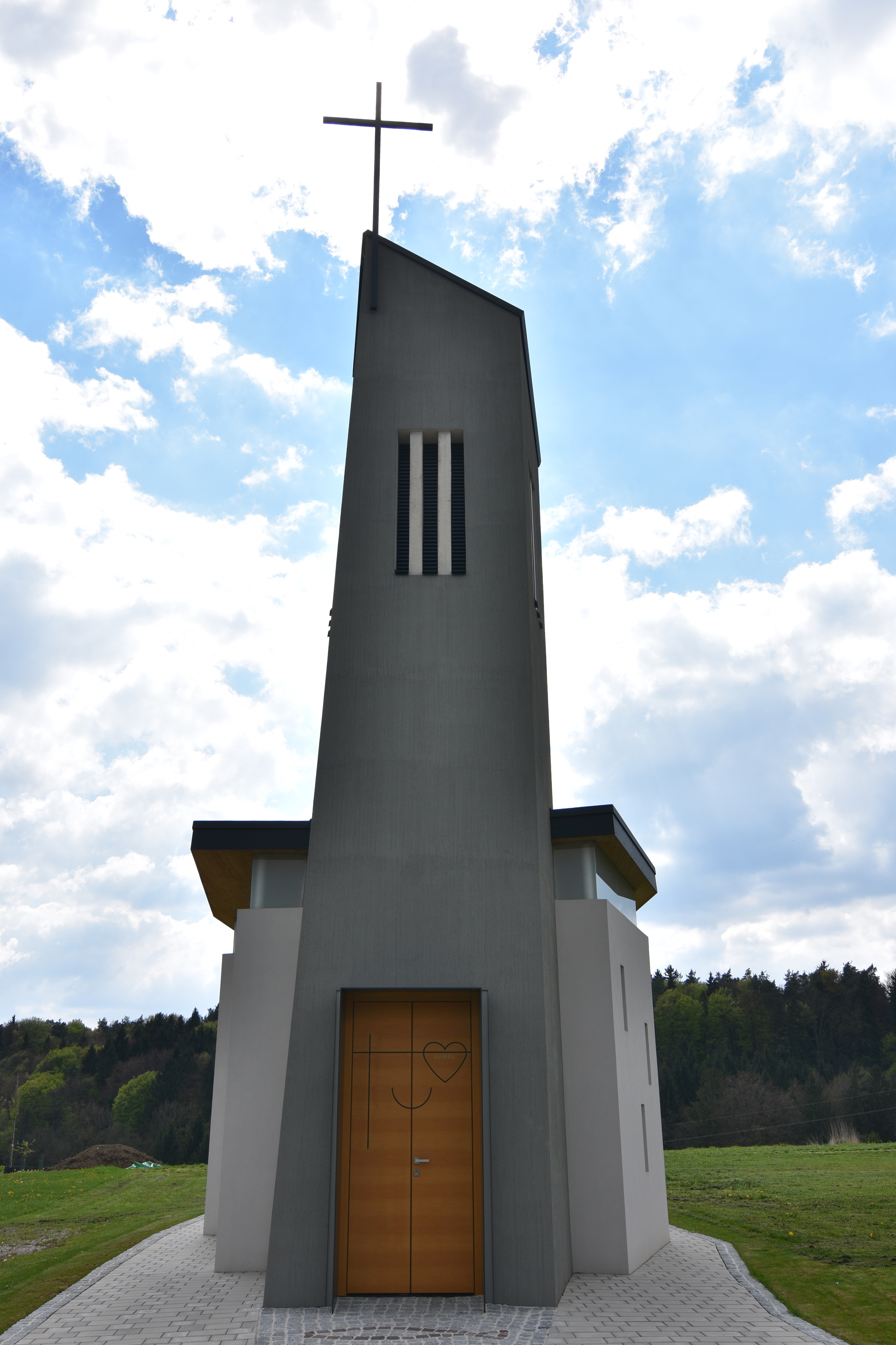 Chapel Manning